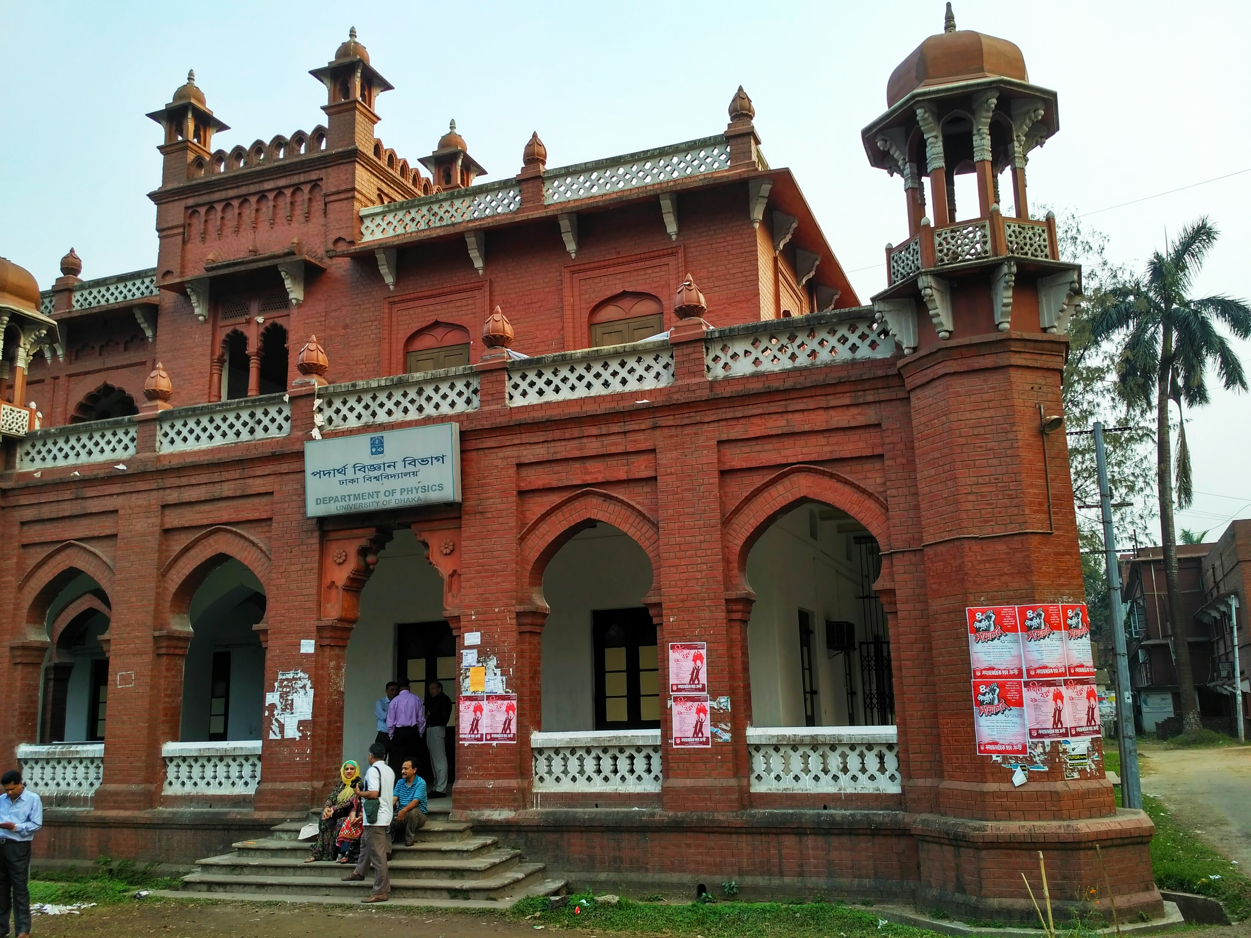 View of the Department of Physics , Curzon Hall , University of Dhaka. 2016.